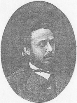 Nikolay Sablin, Russian Revolutionary from Narodnaya Volya